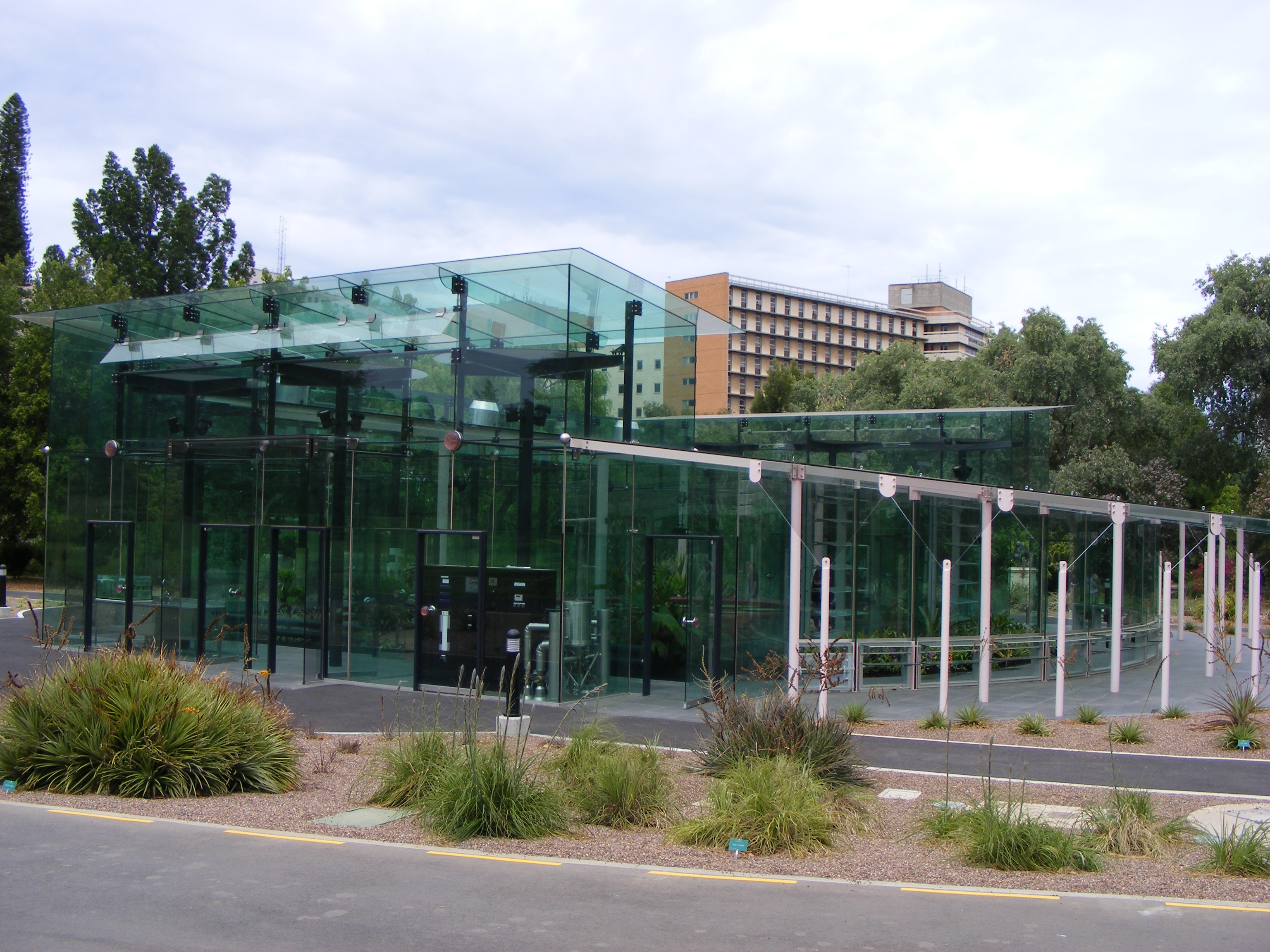 The amazon waterlily pavilion at Botanic Garden, Adelaide, South Australia